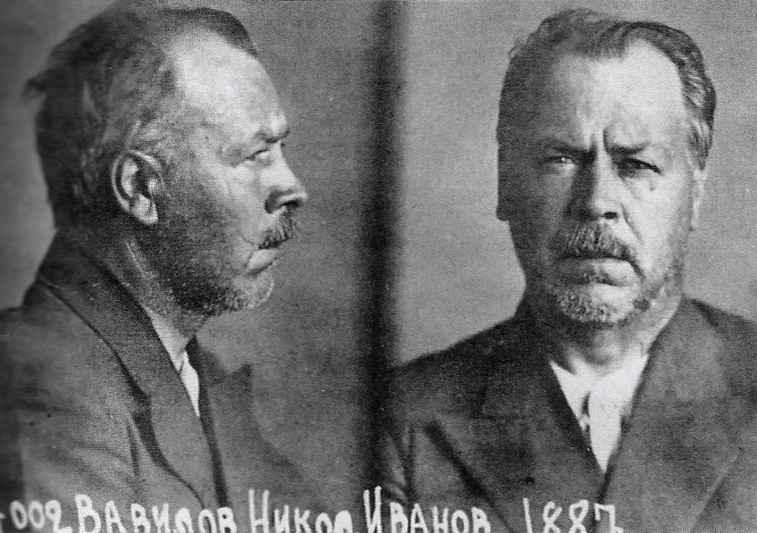 Photo of the prisoner Nikolai Vavilov. Official photo from the file of the investigation